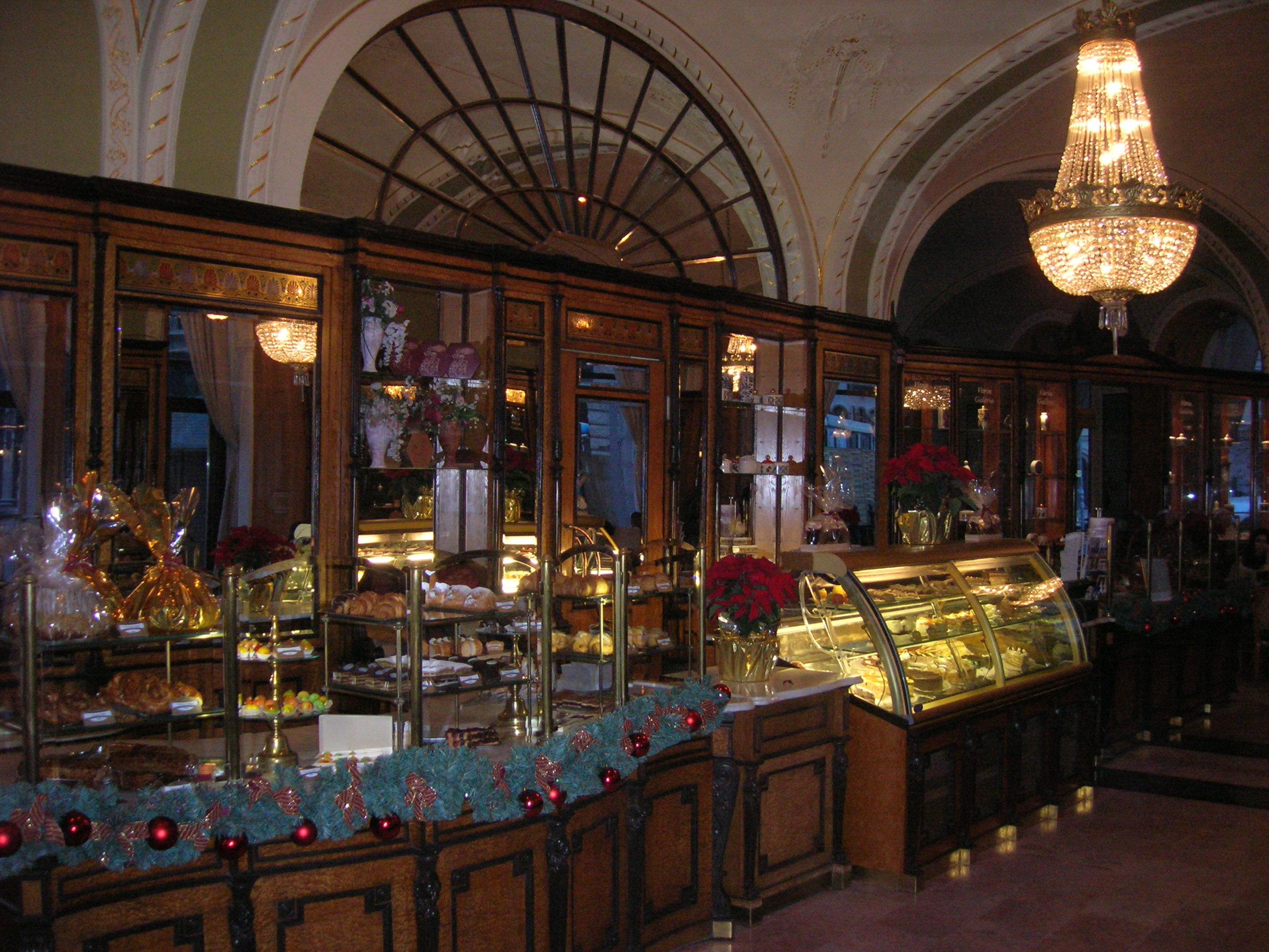 Café Gerbeaud, situated at Vörösmarty tér 7 in Budapest, the capital of Hungary, is one of the greatest and most traditional coffeehouses in Europe.